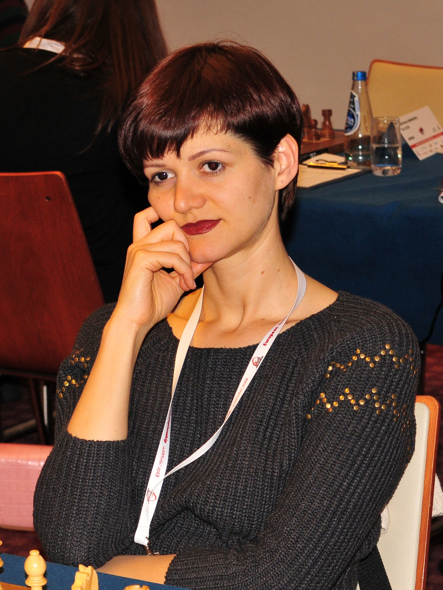 WGM Olga Dolzhikova, European Chess Team Championship Warsaw 2013